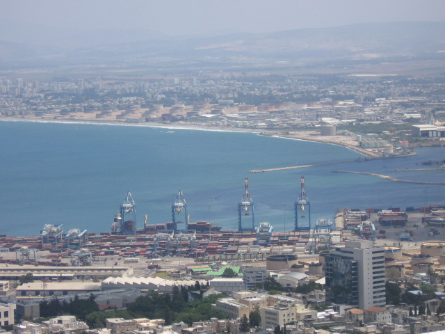 Port of Haifa. Picture taken from Louis promenade